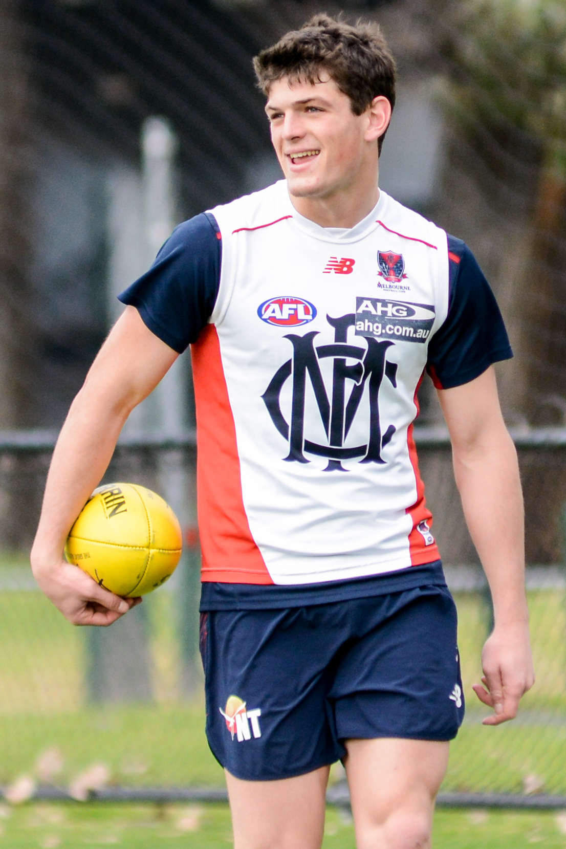 Angus Brayshaw at training during July 2015